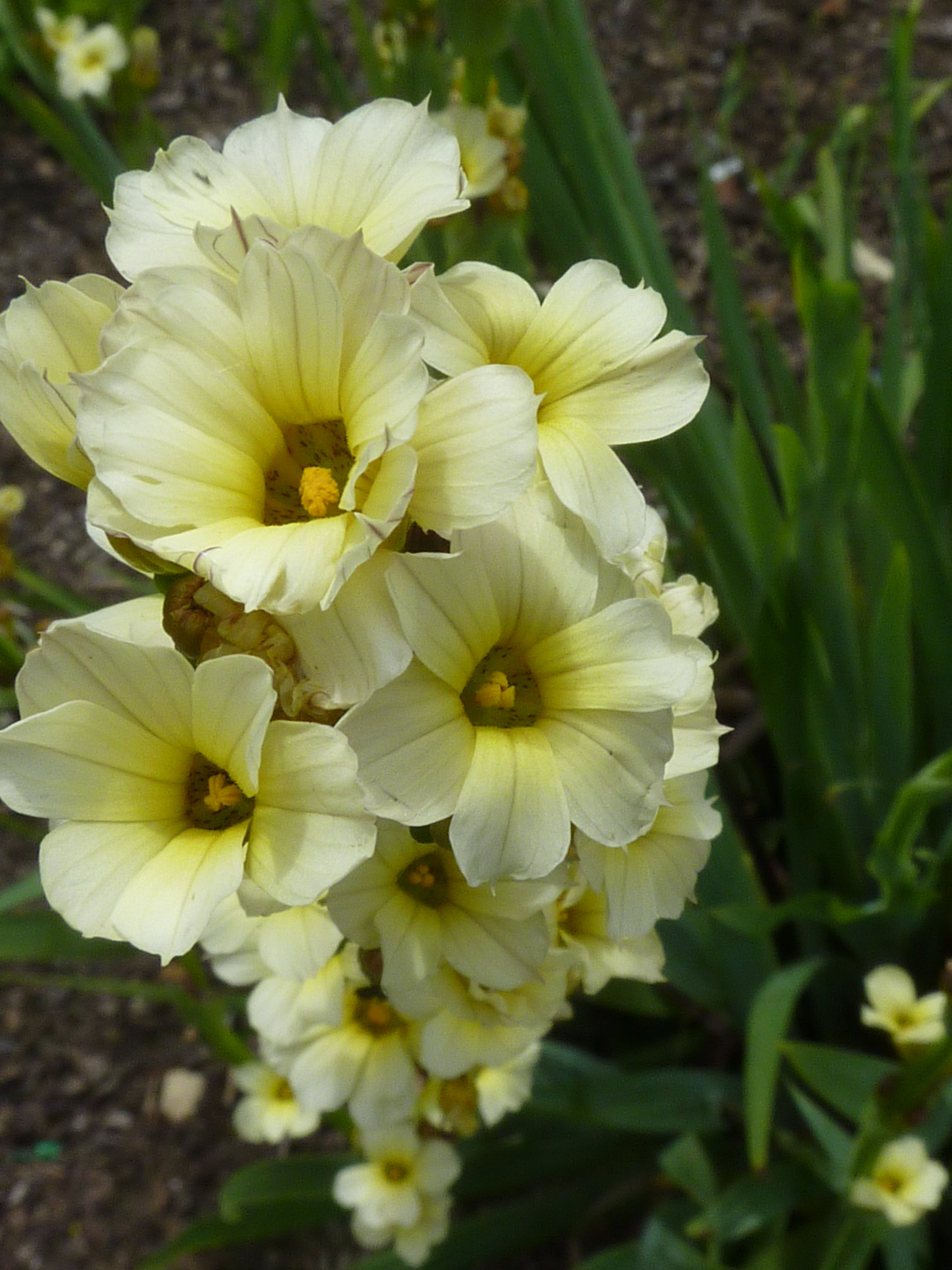 Taken in the Cambridge University Botanic Garden